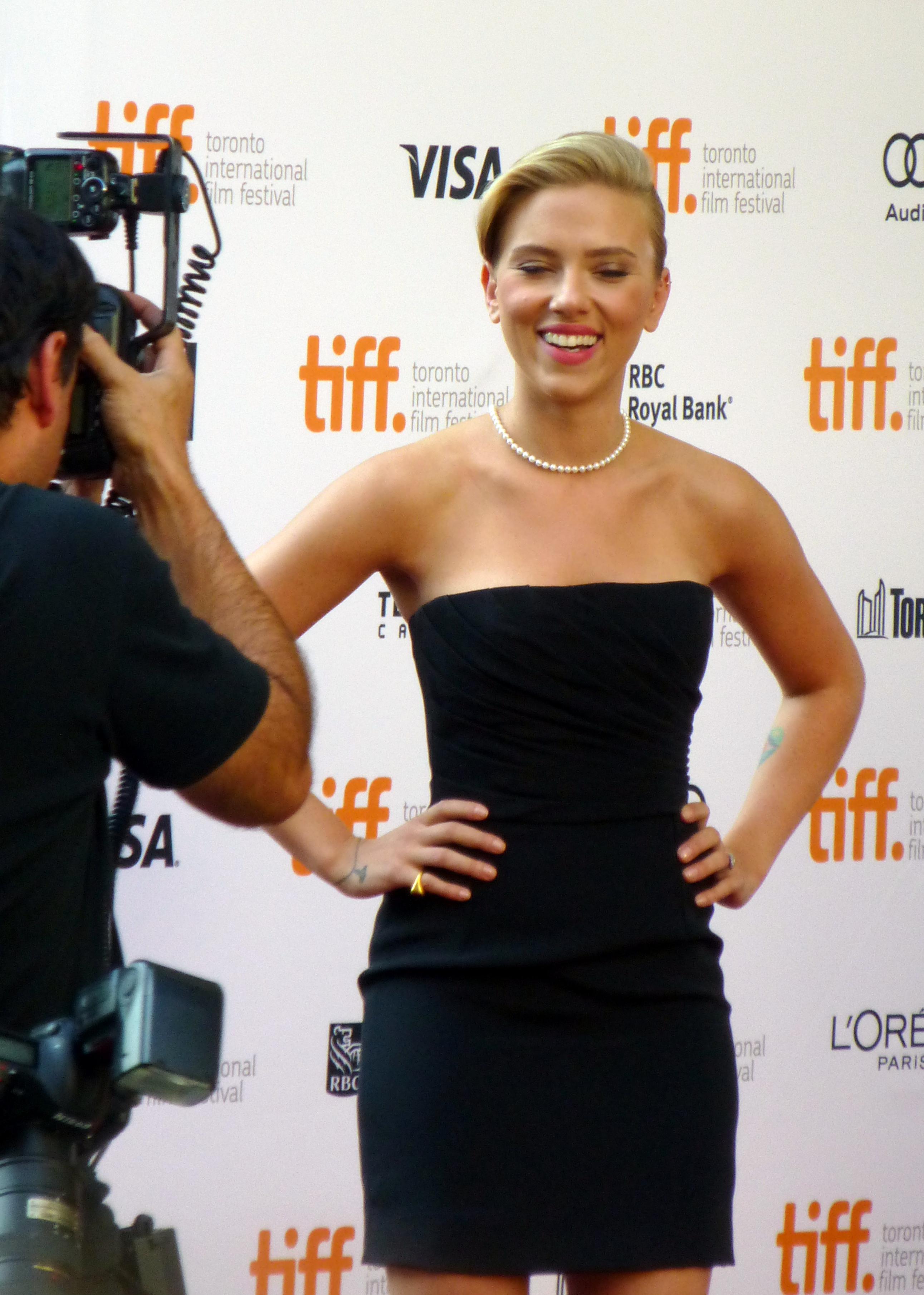 Scarlett Johansson at the Premiere of Don Jon, 2013 Toronto Film Festival